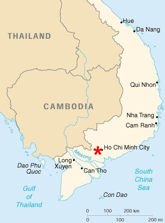 Location of Ton Son Nuht Air Base. Created from map of southern (south) vietnam generated from wikipedia commons map of southeast asia